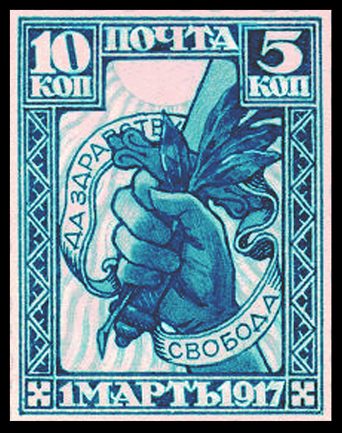 Russia project of a stamp, 1917, 10 (5) k.